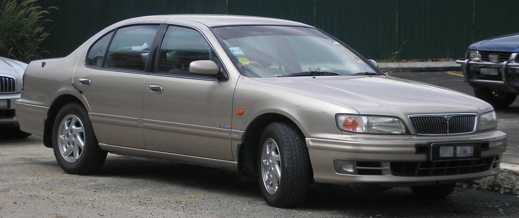 Front quarter view of a second generation, first facelift Nissan Cefiro, in Serdang, Selangor, Malaysia.